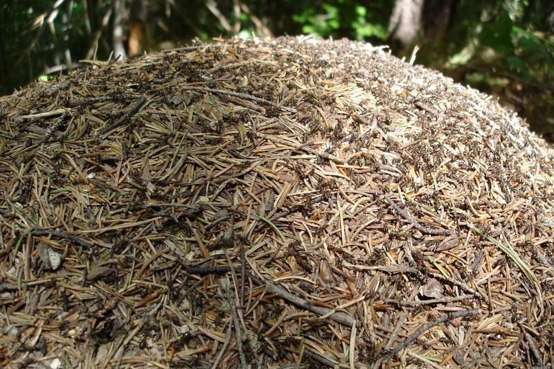 Forest formicary